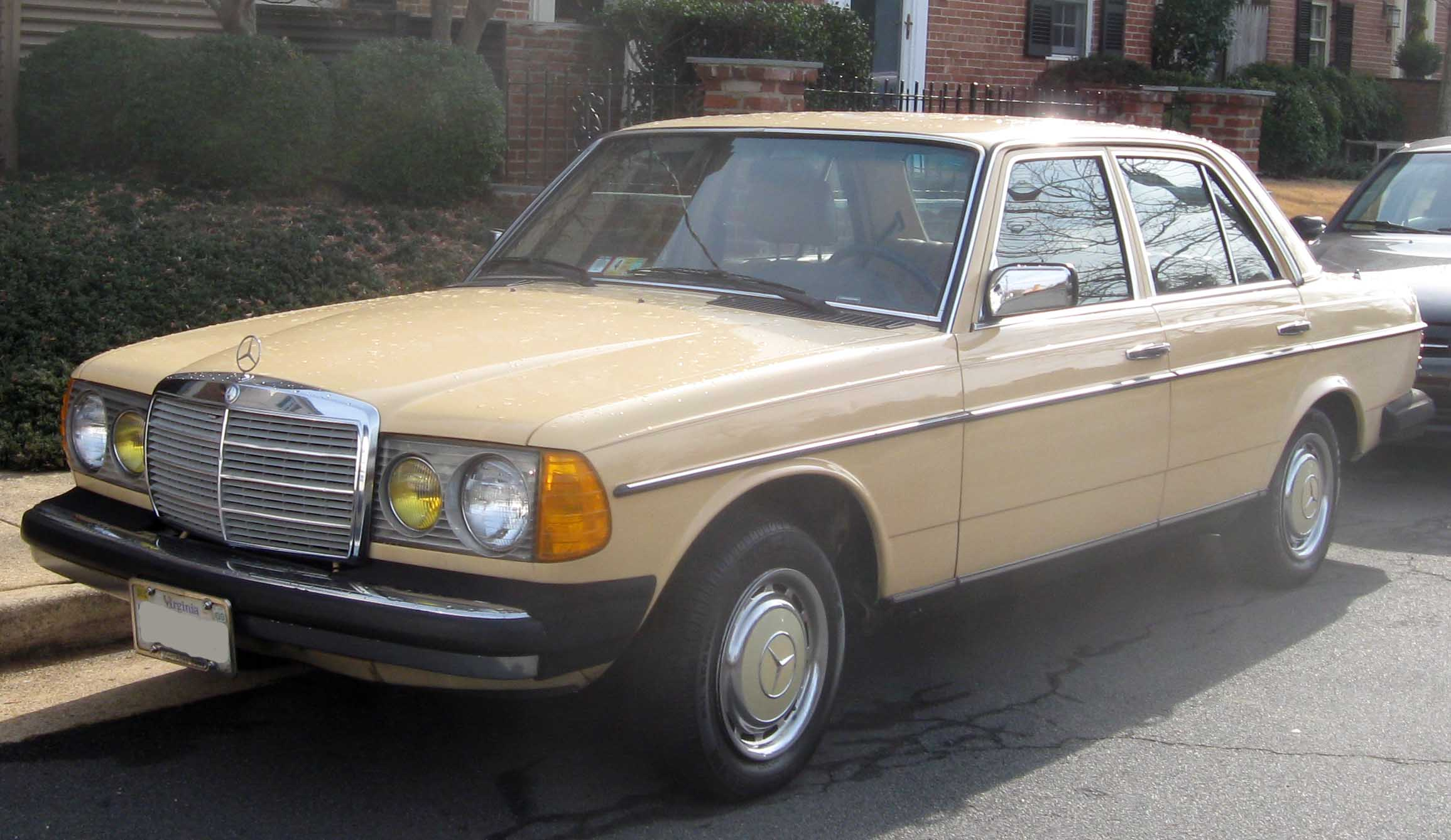 Mercedes-Benz W123 photographed in Alexandria, Virginia, USA.